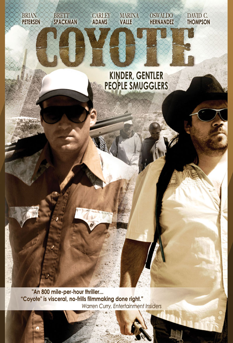 DVD cover art for COYOTE (2008)